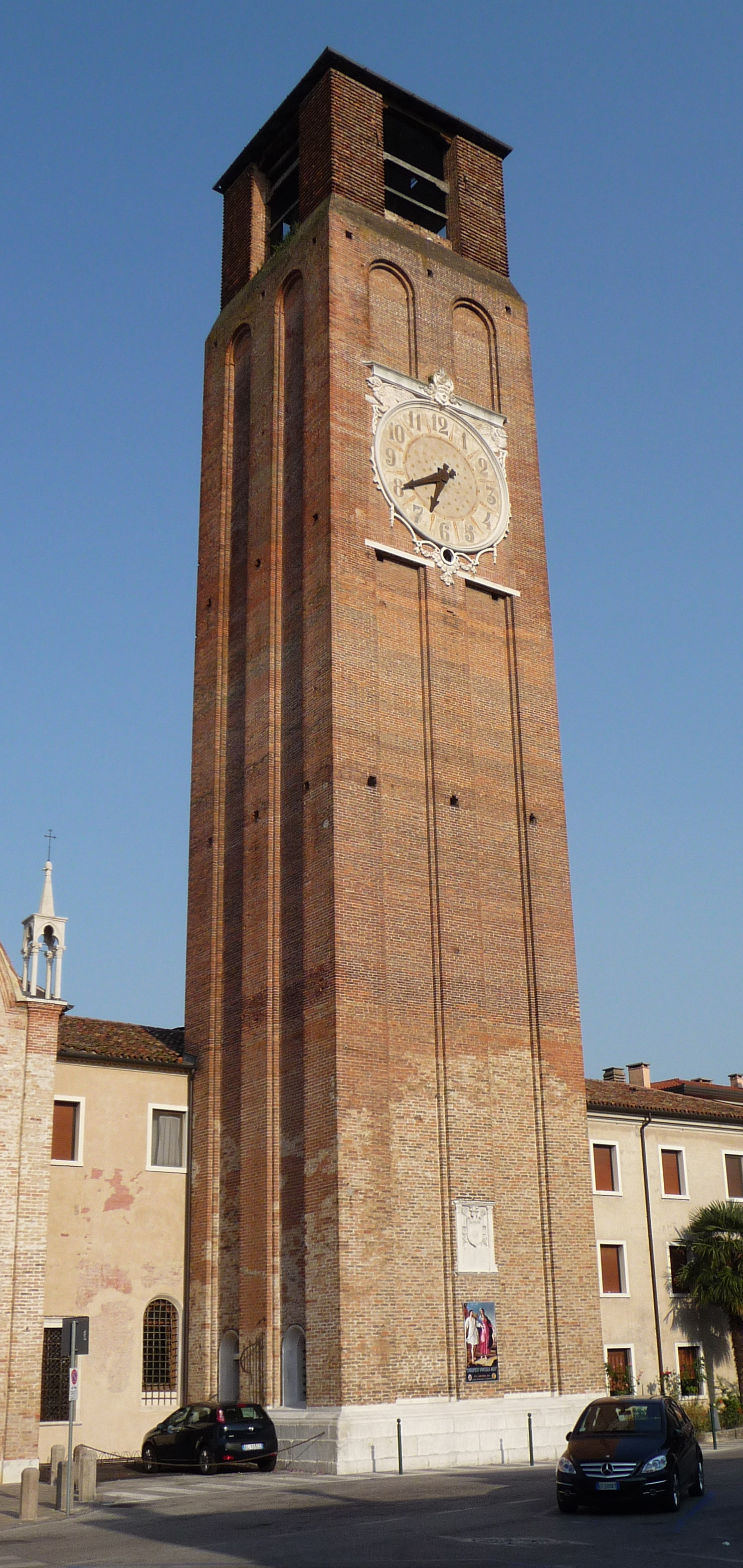 tower bell of chiesa di Santa Maria Maggiore, Treviso (IT)